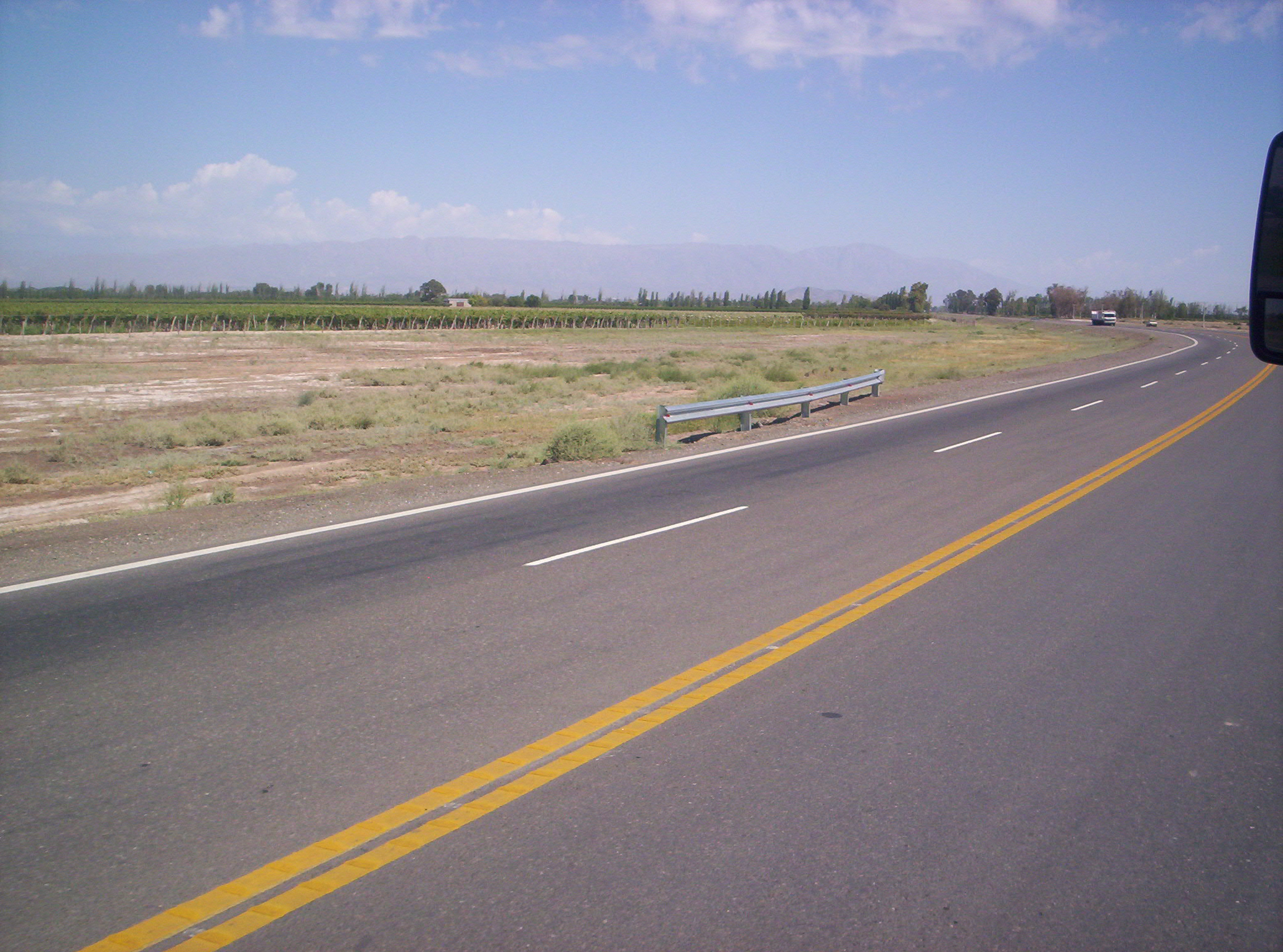 Photograph shows that the National Route 40 before reaching the town of Media Agua in the Department Sarmiento, in the province of San Juan, Argentina